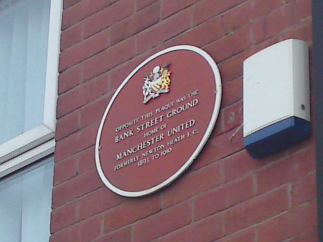 A plaque marking the location of the Bank Street ground used by Manchester United from 1893 to 1910.